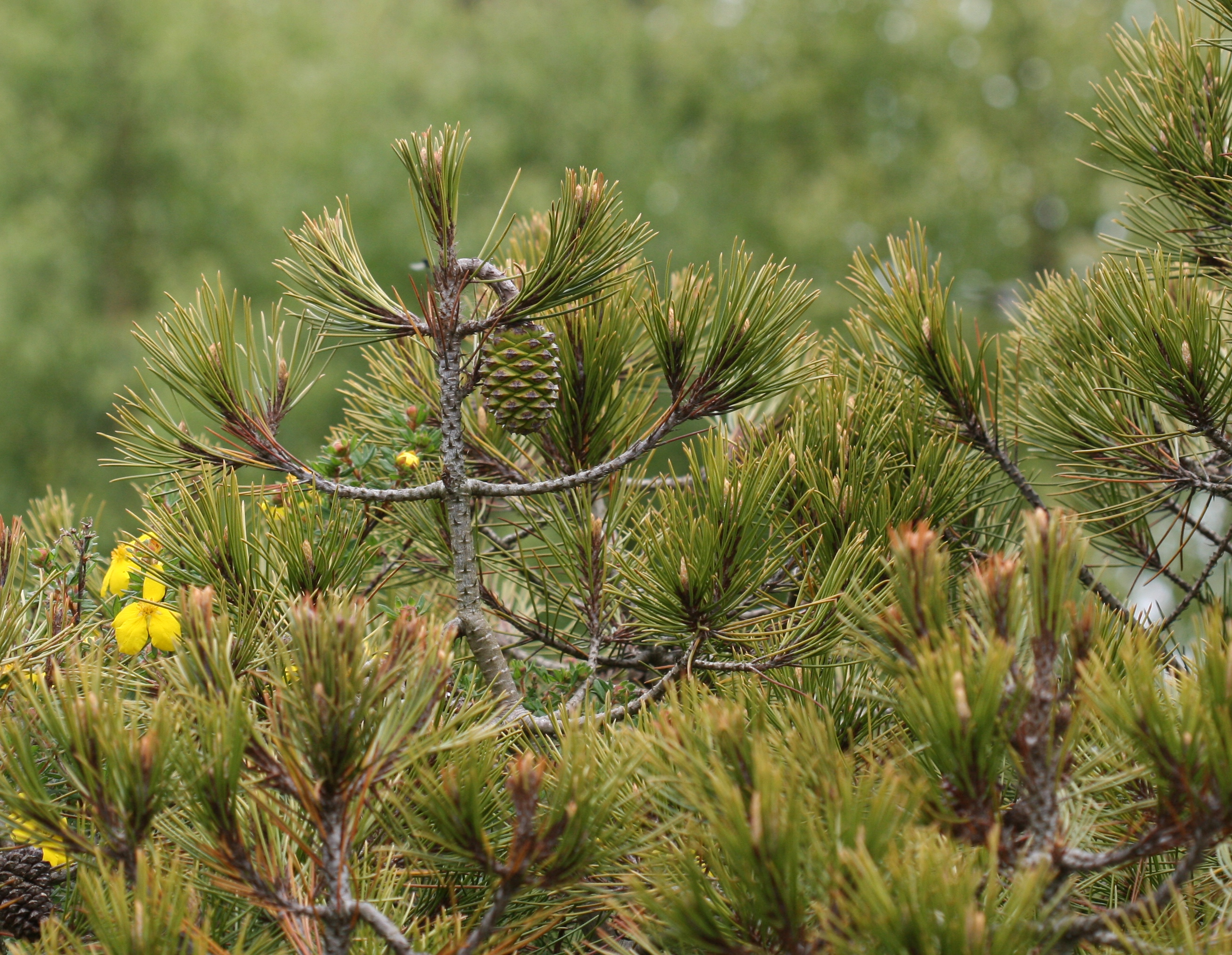 Pinus nelsonii, Royal Botanic Garden, Edinburgh, Scotland.